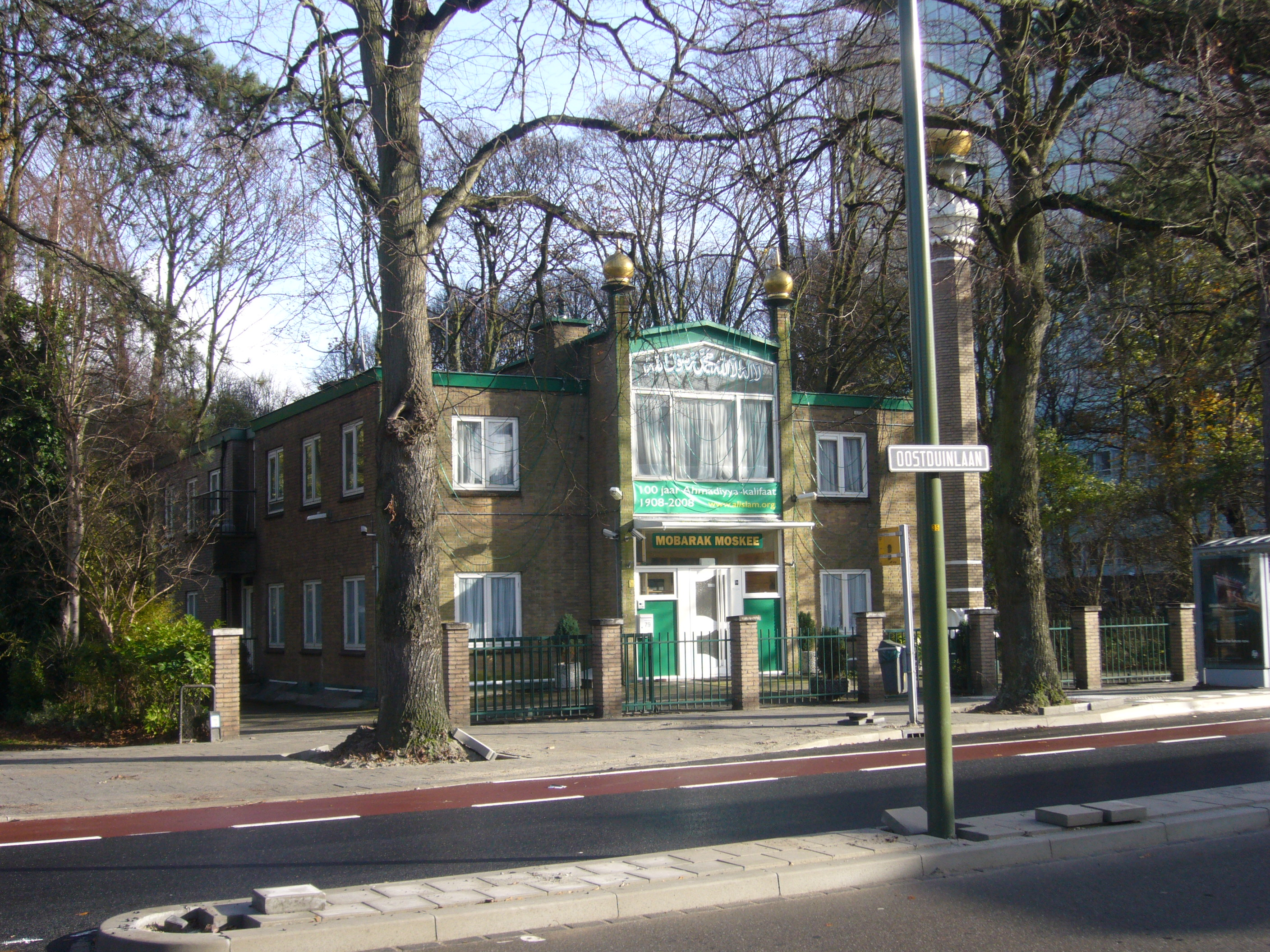 Mobarak Mosque, The Hague